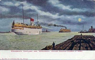 The S.S. Eastland with the S.S. Christopher Columbus in the background. The S.S. Eastland was a passenger ship based in Chicago, Illinois and used for tours. The ship was commissioned in 1902 by the Michigan Steamship Company and built by the Jenks Ship Building Company. She was involved in a famous maritime disaster, with the loss of 845 lives, in 1915. The S.S. Christopher Columbus was a whaleback excursion liner designed by Alexander McDougall and built in 1892-1893 in Superior, Wisconsin by American Steel Barge Company for service to ferry passengers to and from the World's Columbian Exposition, and later placed in general service to various excursion ports around the Great Lakes. This image is of the Eastland, from the stern, with the Columbus in the foreground, leaving Chicago for excursions, circa 1912